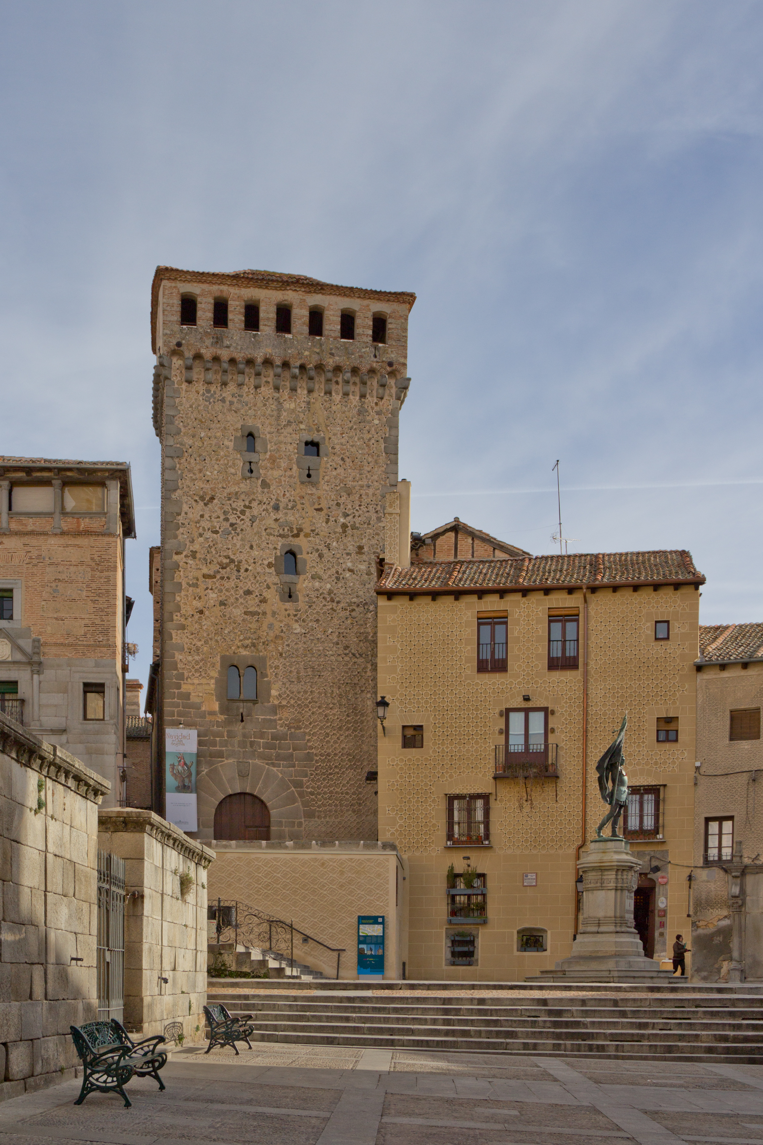 Lozoya Tower, House of Bornos, House of Solier and monument to Juan Bravo, Segovia, Spain.